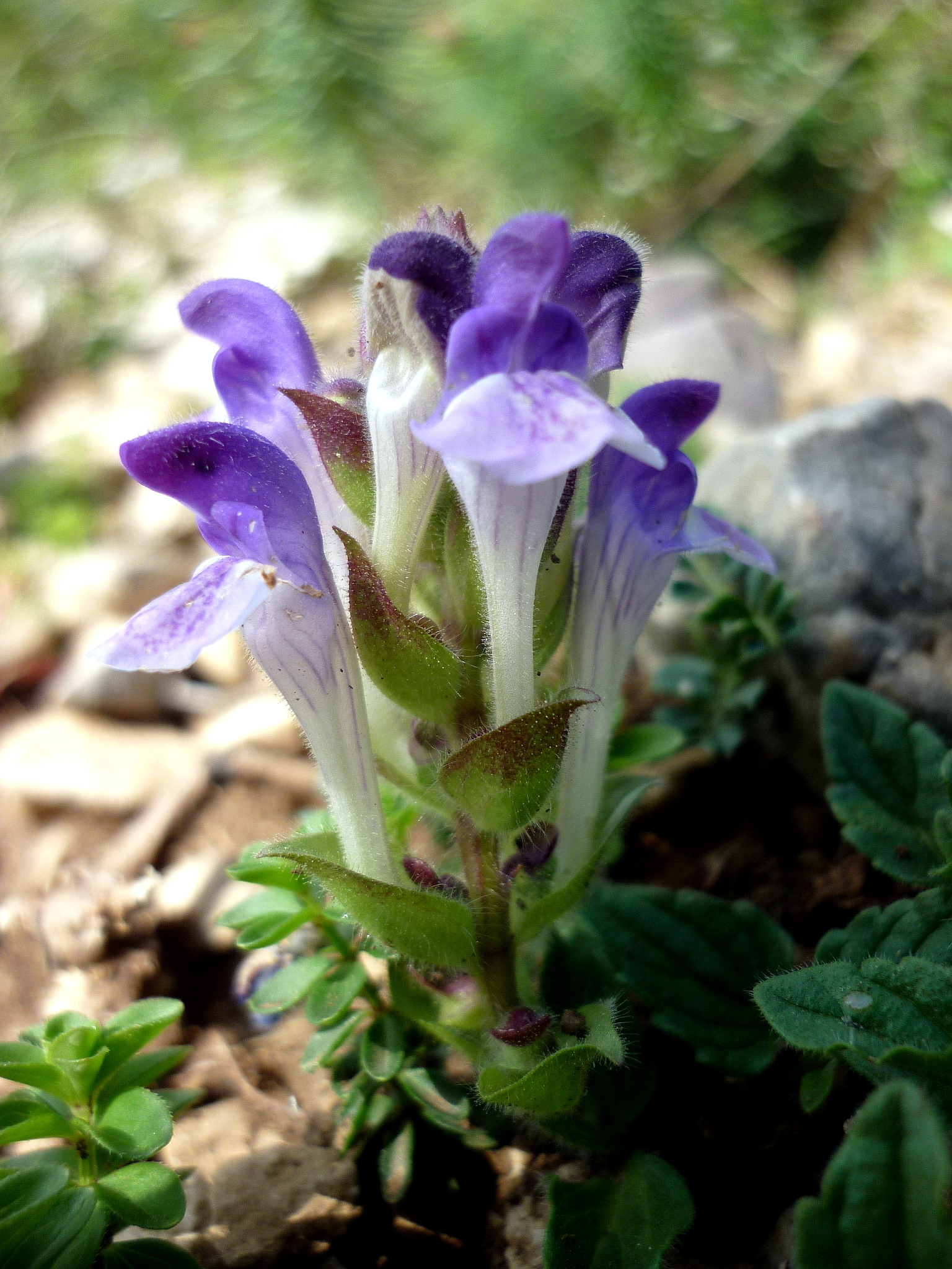 Scutellaria alpina. In la Bòfia, la Coma i la Pedra (Solsonès - Catalunya). To 1.840 m. altitude